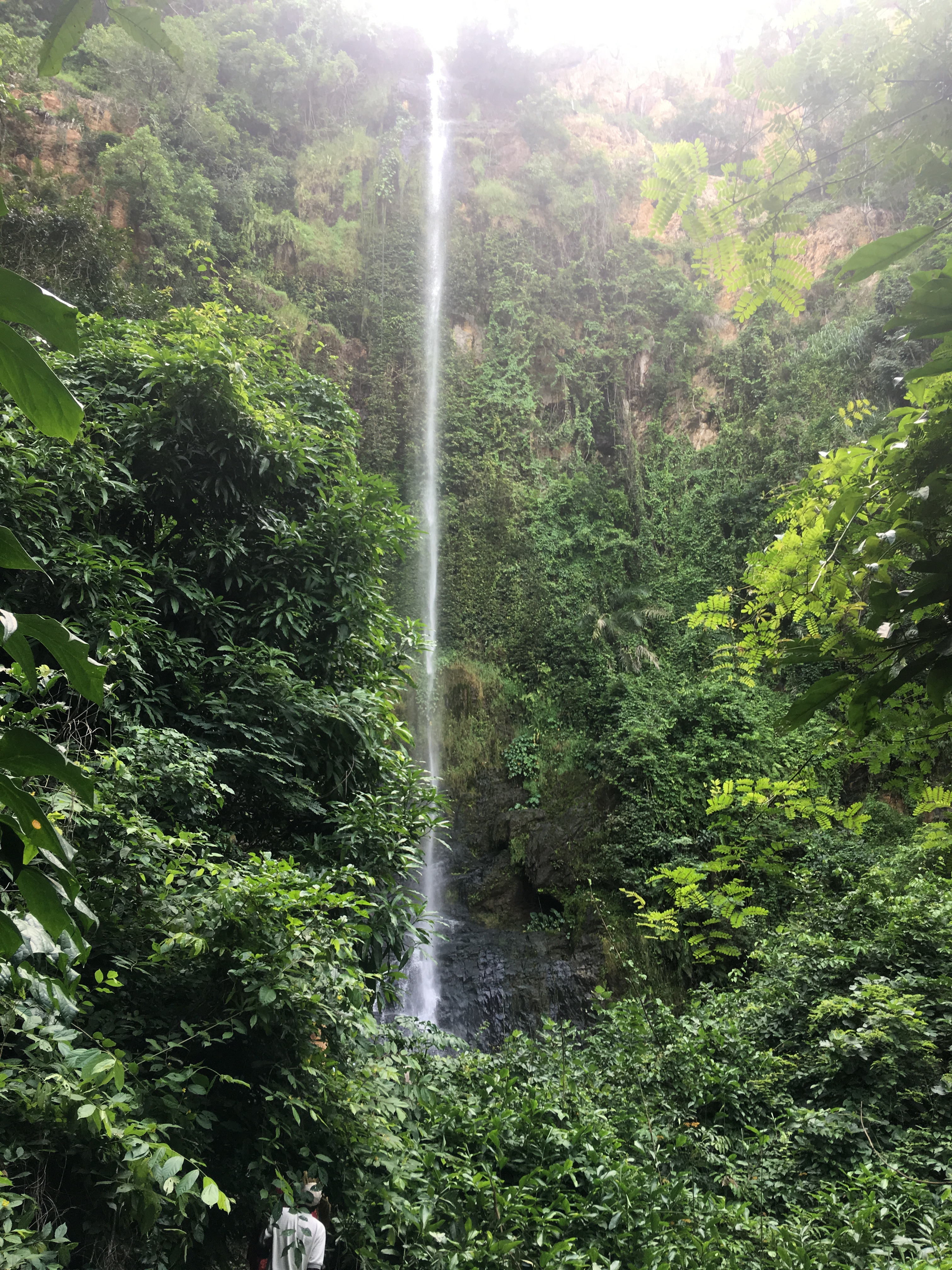 Owu Waterfall Template:Tour Nigeria archive